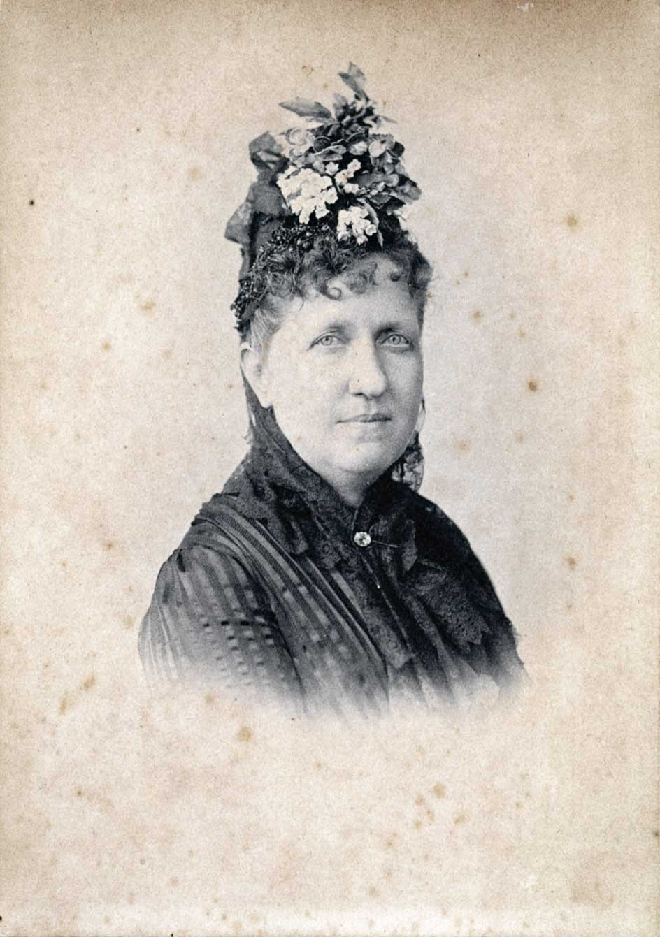 Isabel, Princess Imperial of Brazil, c.1887.